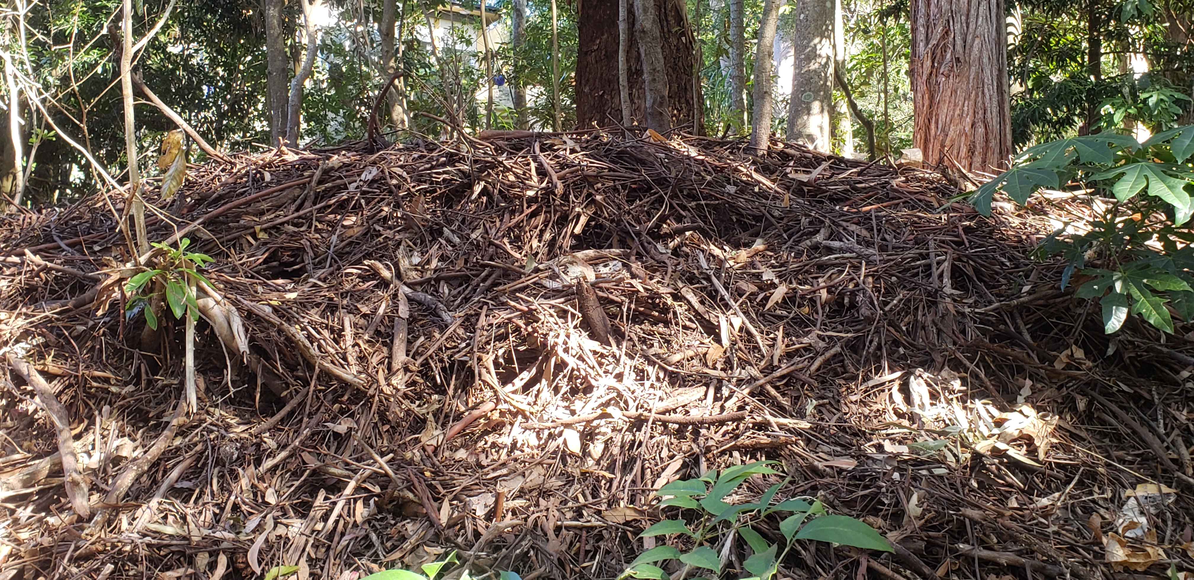 The nesting site of an Australian brush turkey sited amongst leaf litter in northern Sydney.